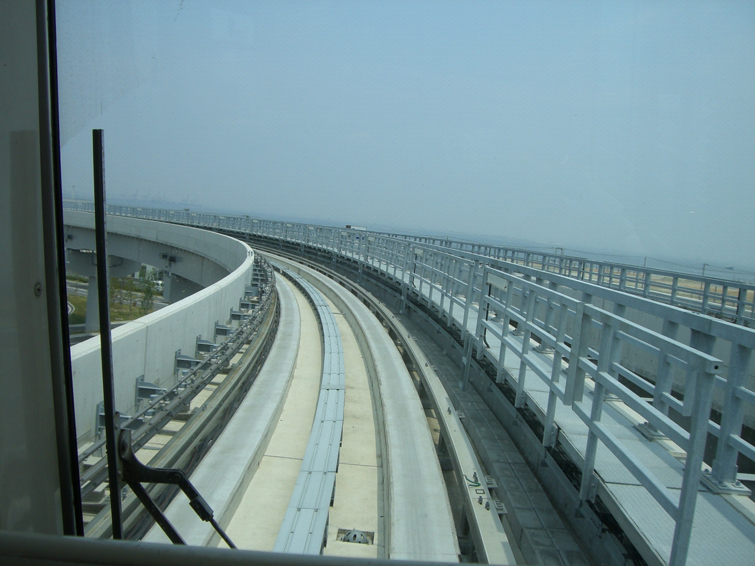 Railroad of PortLiner in Kobe Japan